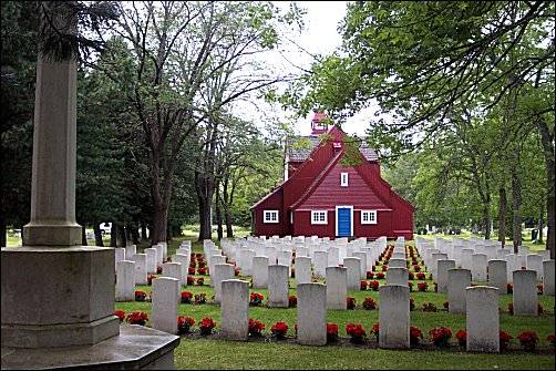 Stavne krigskirkegård, Trondheim. Den britiske soldatgravplassen. (Commonwealth War Graves Commission)